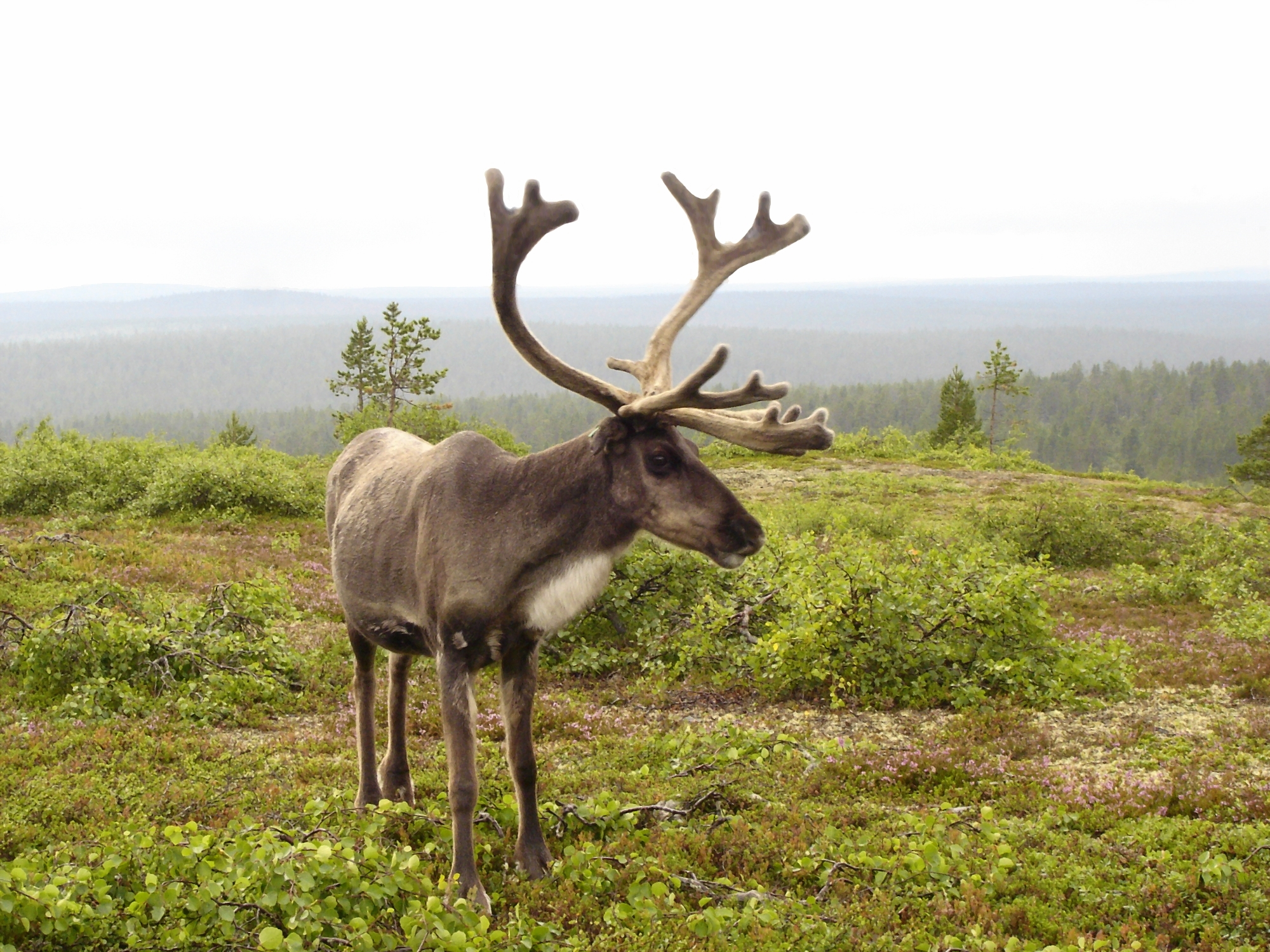 A reindeer in finnish Fell in the region of Inari, Finland.